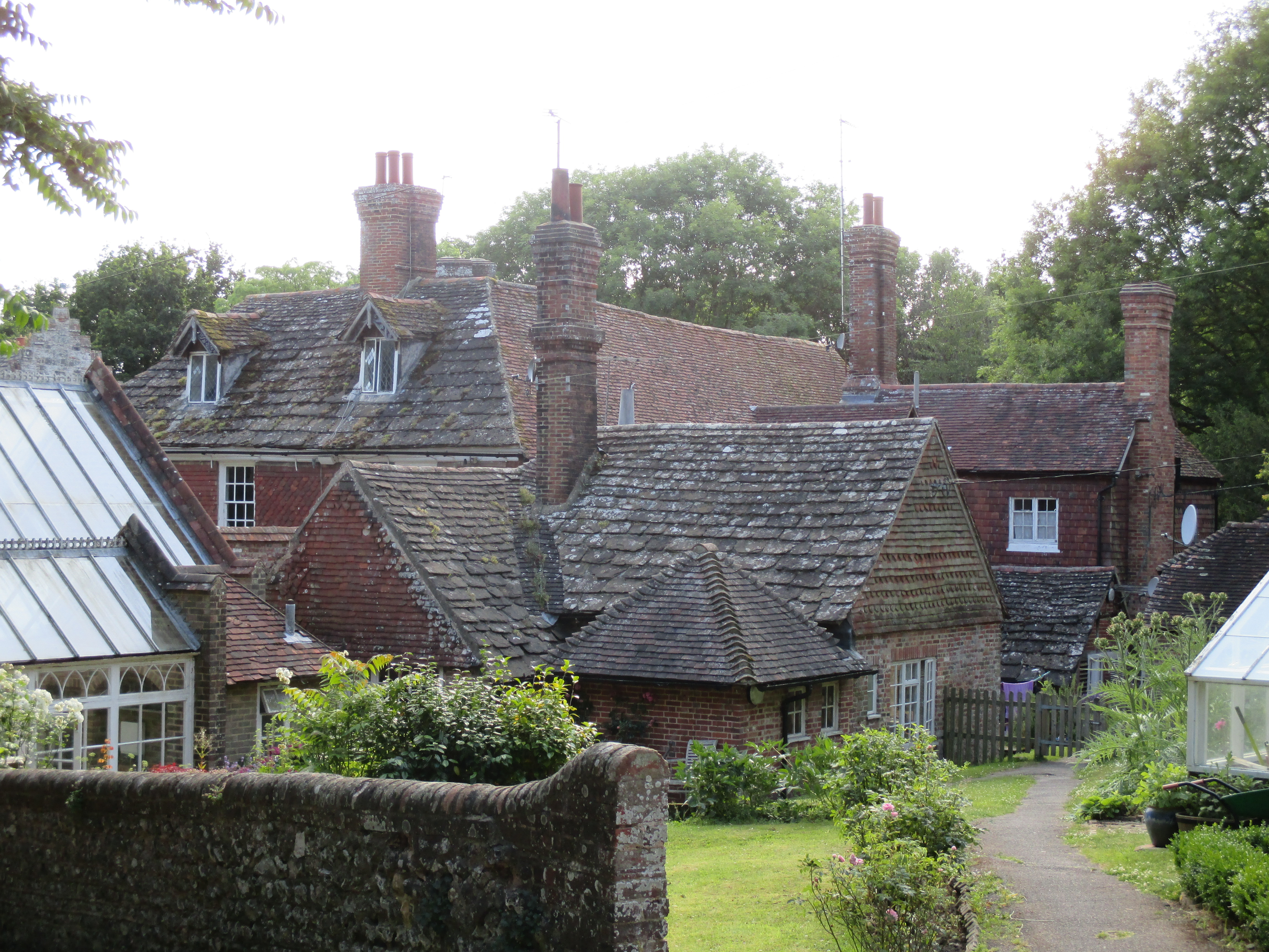 Hickstead Place, Twineham, West Sussex, photographed from the north-east.